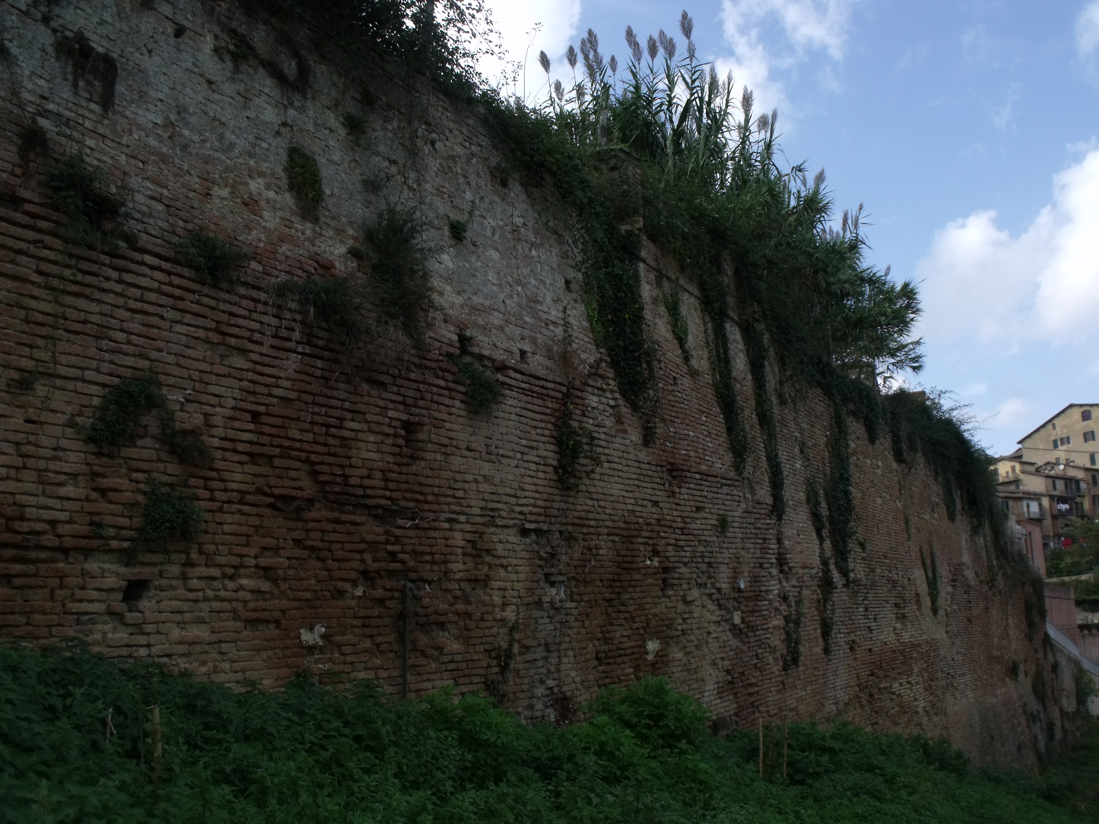 2nd Ring of the City Wall of Siena (first enlargement of the medieval wall, 12th century) behind the today Via Sallustio Bandini, seen from the Site of the Follonica fountain (external view)